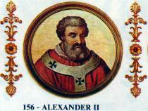 Portrait of Pope Alexander II in the Basilica of Saint Paul Outside the Walls, Rome